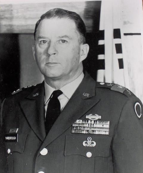 Lieutenant General William Pelham Yarborough (May 12, 1912 – December 6, 2005) was a United States Army officer and a 1936 graduate of West Point. Yarborough designed the US Army's parachutist badge, paratrooper or 'jump' boots, and the airborne jump uniform.